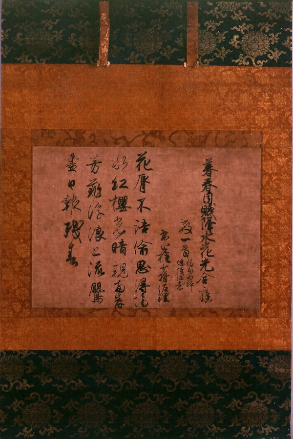 Poem on kaishi paper by Fujiwara no Sukemasa (藤原佐理筆詩懐紙, Fujiwara no Sukemasa hitsu shikaishi). Oldest extant shikaishi, a poem written on kaishi paper (a paper folded and tucked inside the front of the kimono). One hanging scroll, ink on paper, 32.0 × 45.0 cm (12.6 × 17.7 in). Located at Kagawa Museum (香川県立ミュージアム?), Takamatsu, Kagawa, Japan.